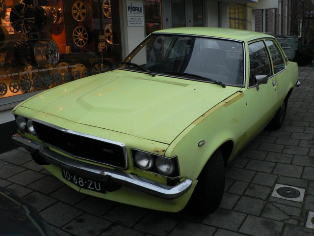 10-68-ZU Car has been scrapped meanwhile